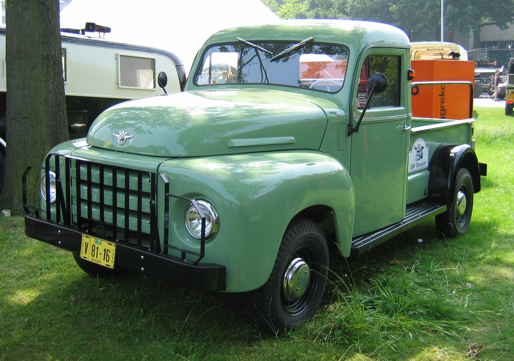 A DAF truck at the DAF exposition during the Eindhoven Pole Position weekend.